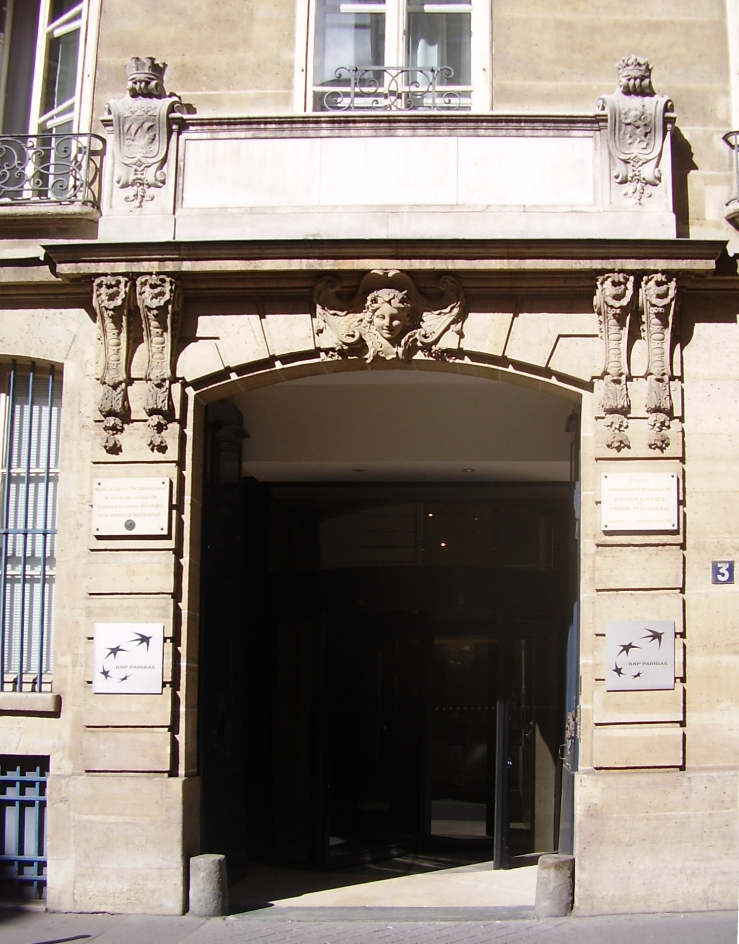 Gateway of the the 18th c. hôtel de Mondragon (which have been the town hall of Paris 2d arrondissement and is now a bank). 3 rue d'Antin, Paris II